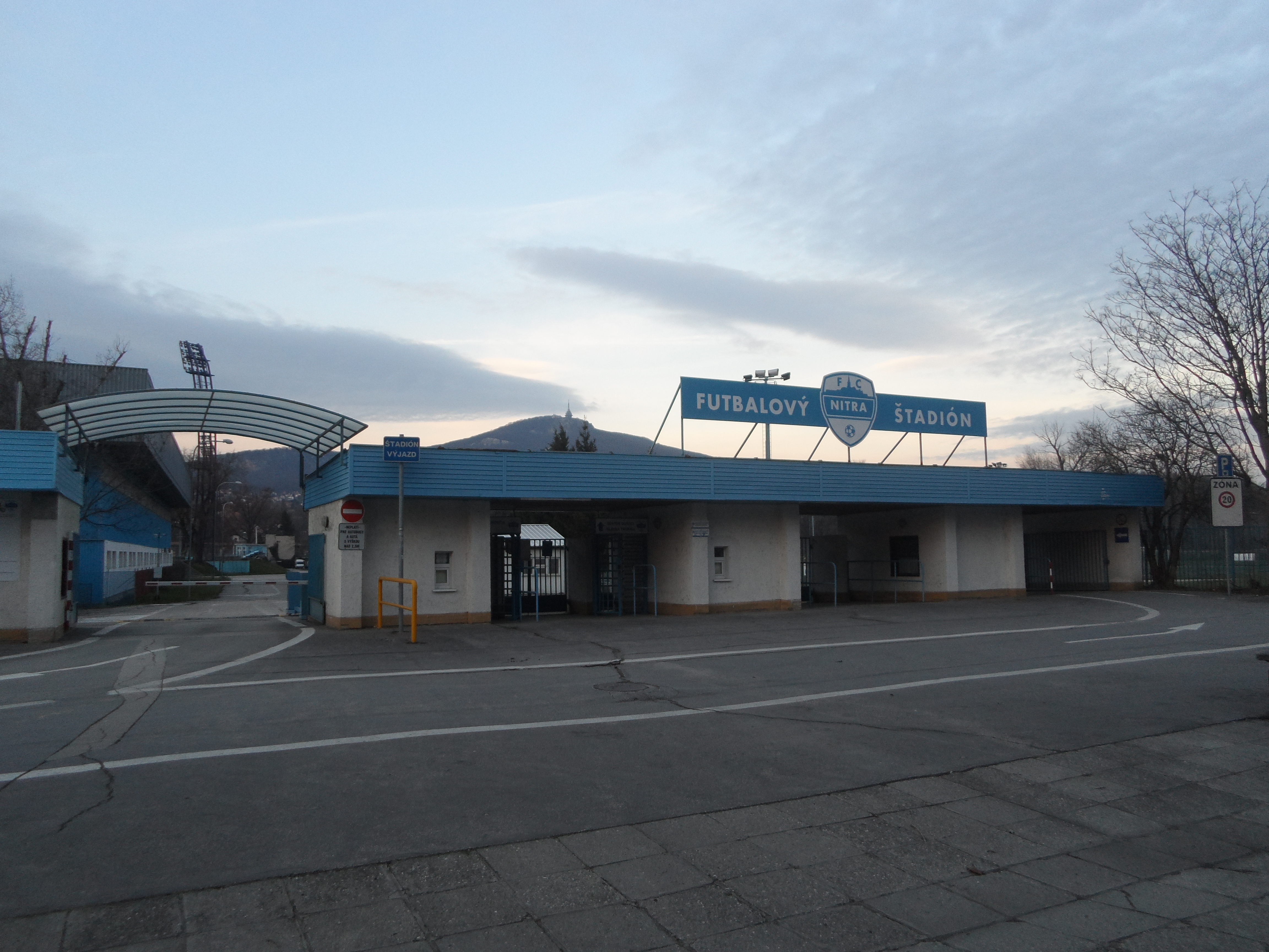 Nitra football stadium